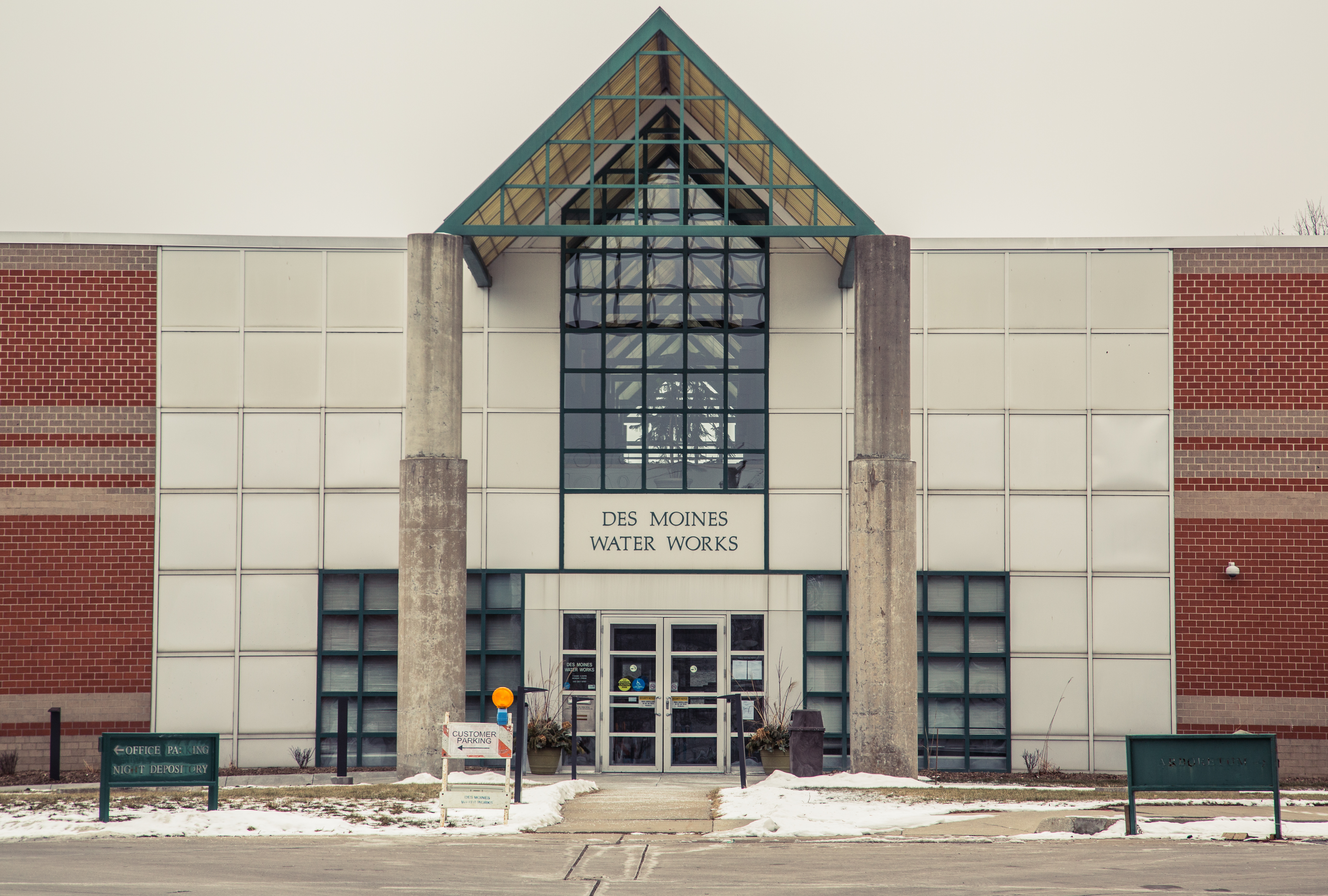 The Des Moines Water Works (DMWW, water utility provider) building at 2201 George Flagg Parkway in Des Monies, Iowa.